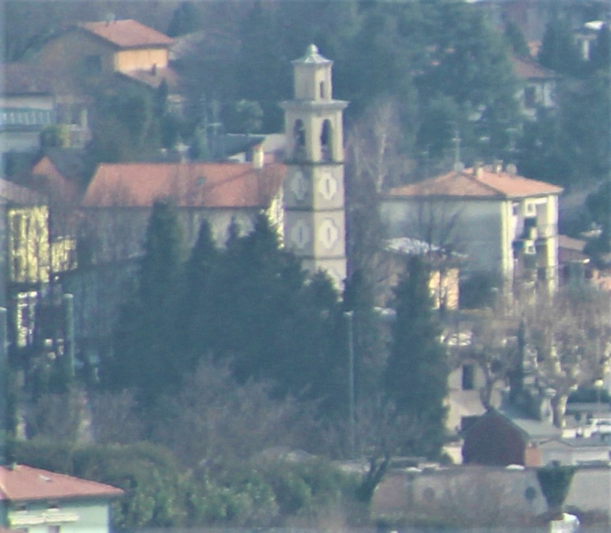 S. Martino (S. Anna) in Albiolo - view from Colle San Maffeo in Rodero